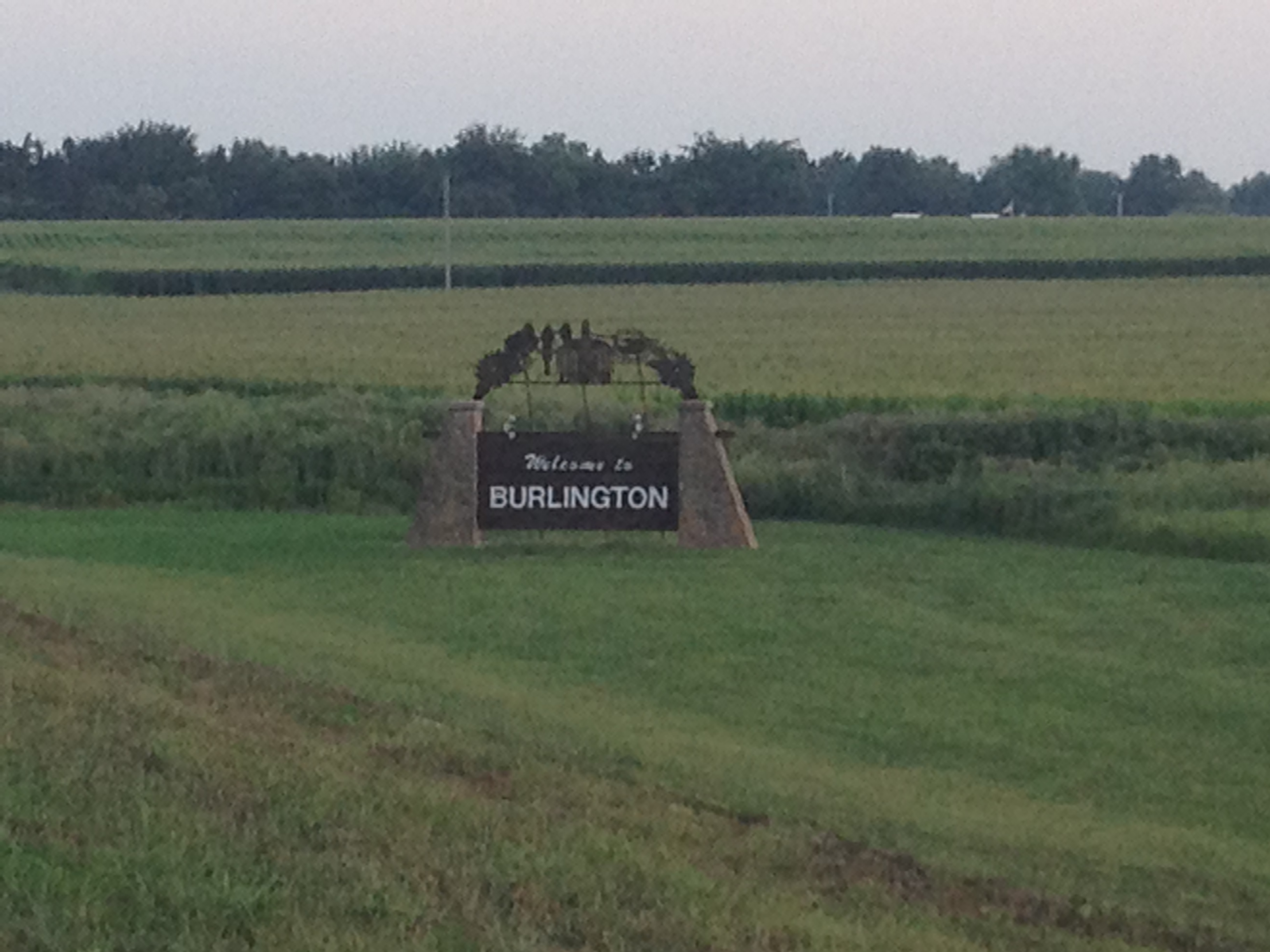 Welcome sign located on North side of town for Burlington, Kansas.